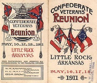 United Confederate Veterans Reunion brochure